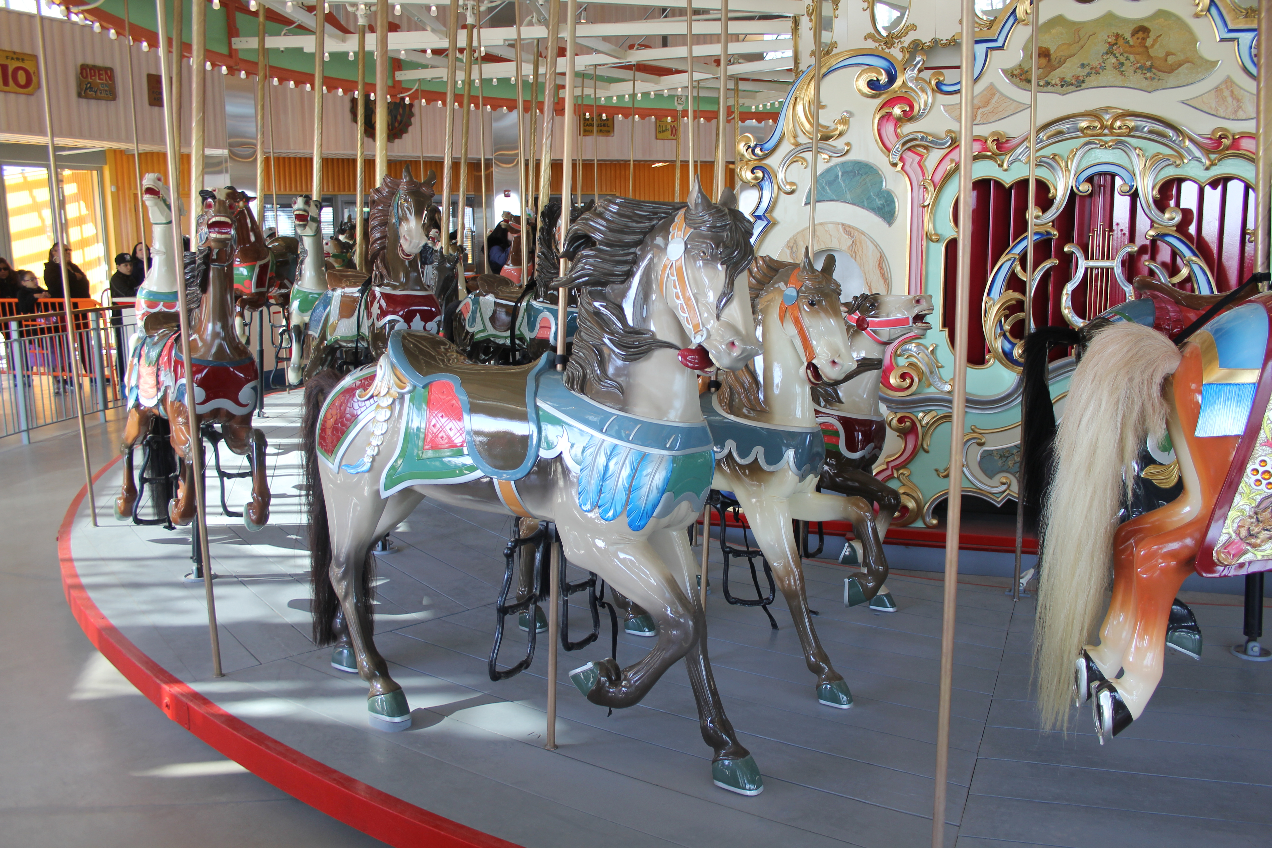 A section of the B&B Carousel, housed on the Coney Island Boardwalk near the Parachute Jump since 2013. These horses were carved by Charles Carmel in the 1920s.